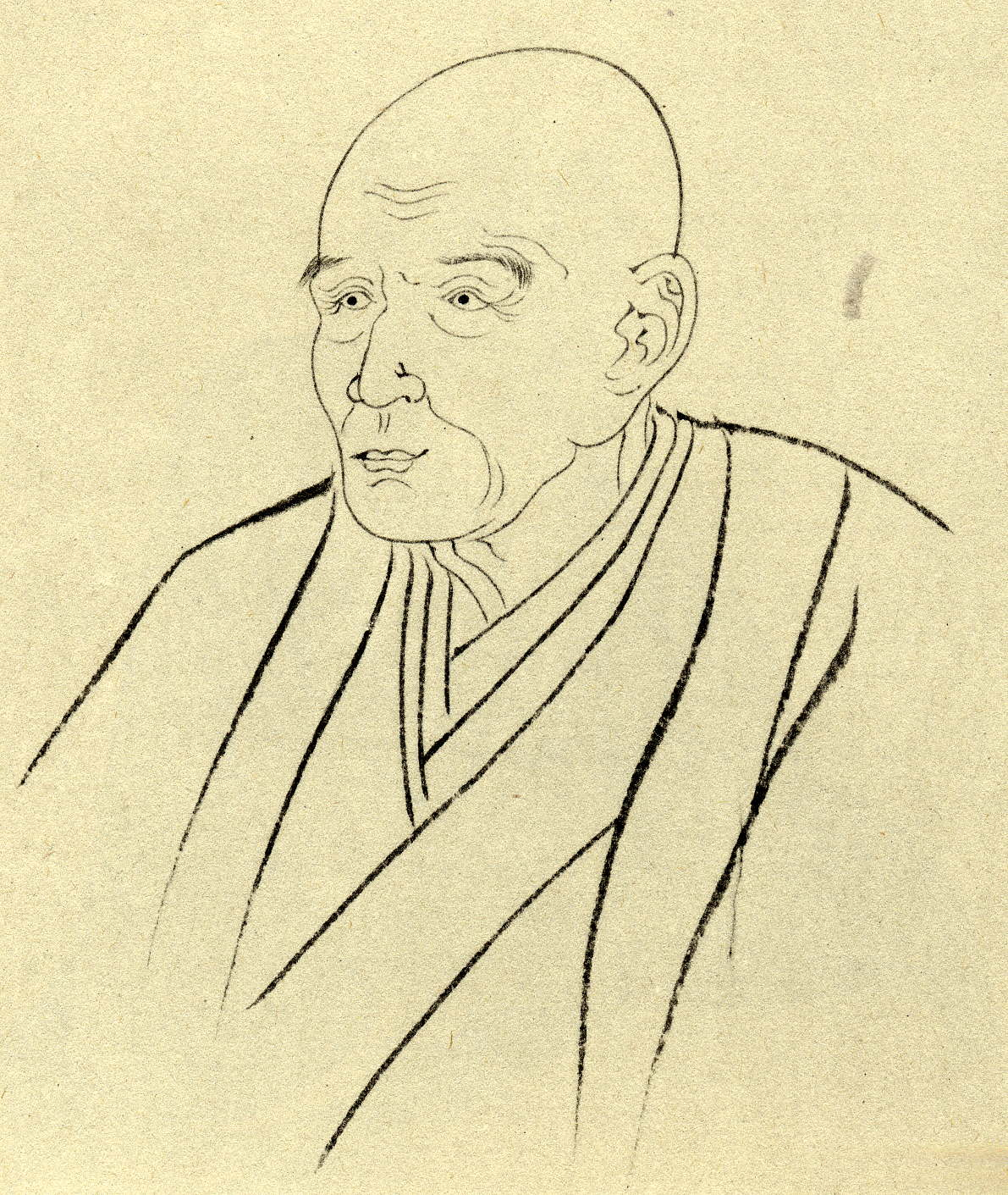 Kyokutei Bakin (曲亭馬琴, 1767–1848) was a late Edo period gesaku author.